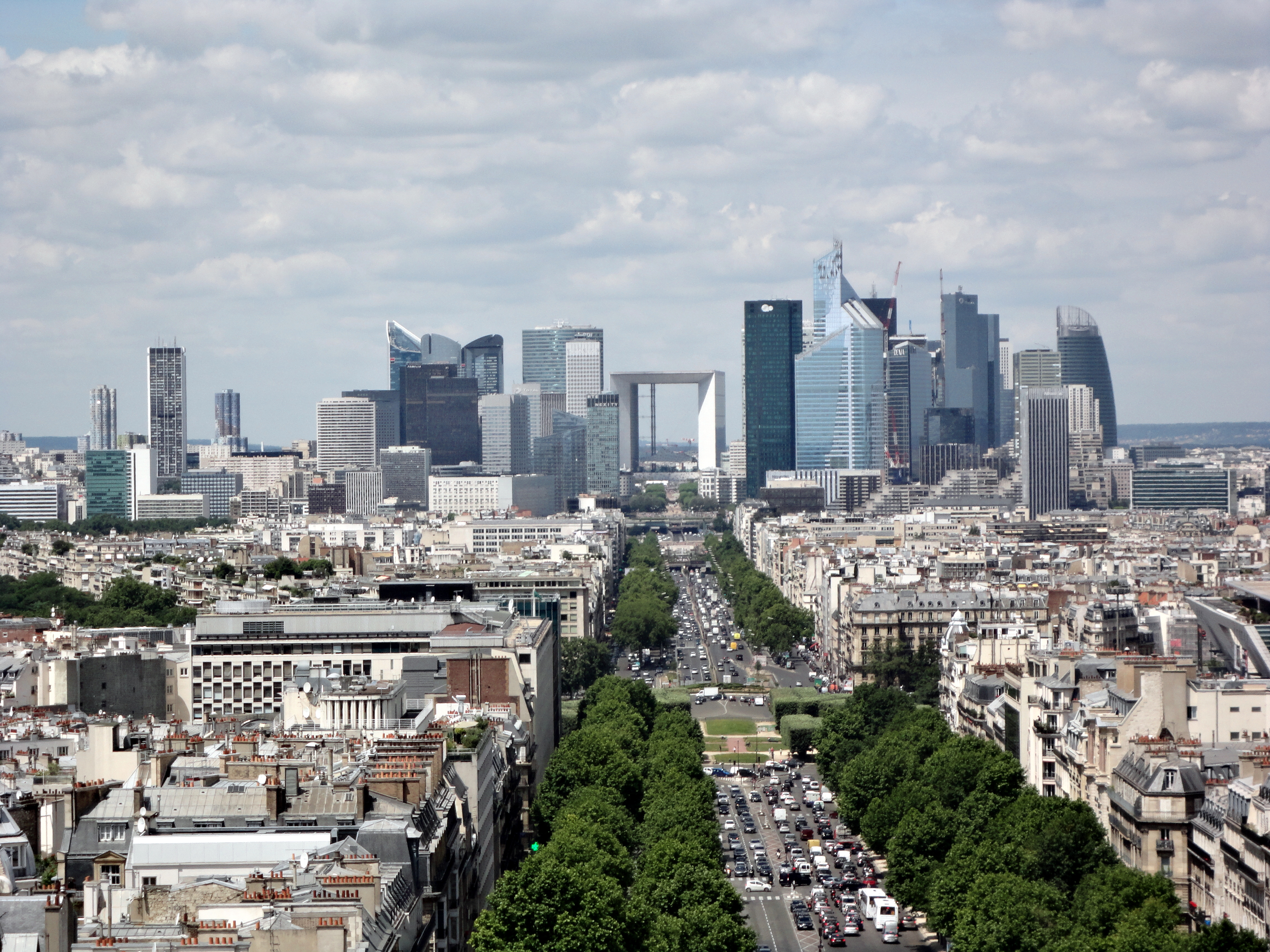 Views from the Arc de Triomphe